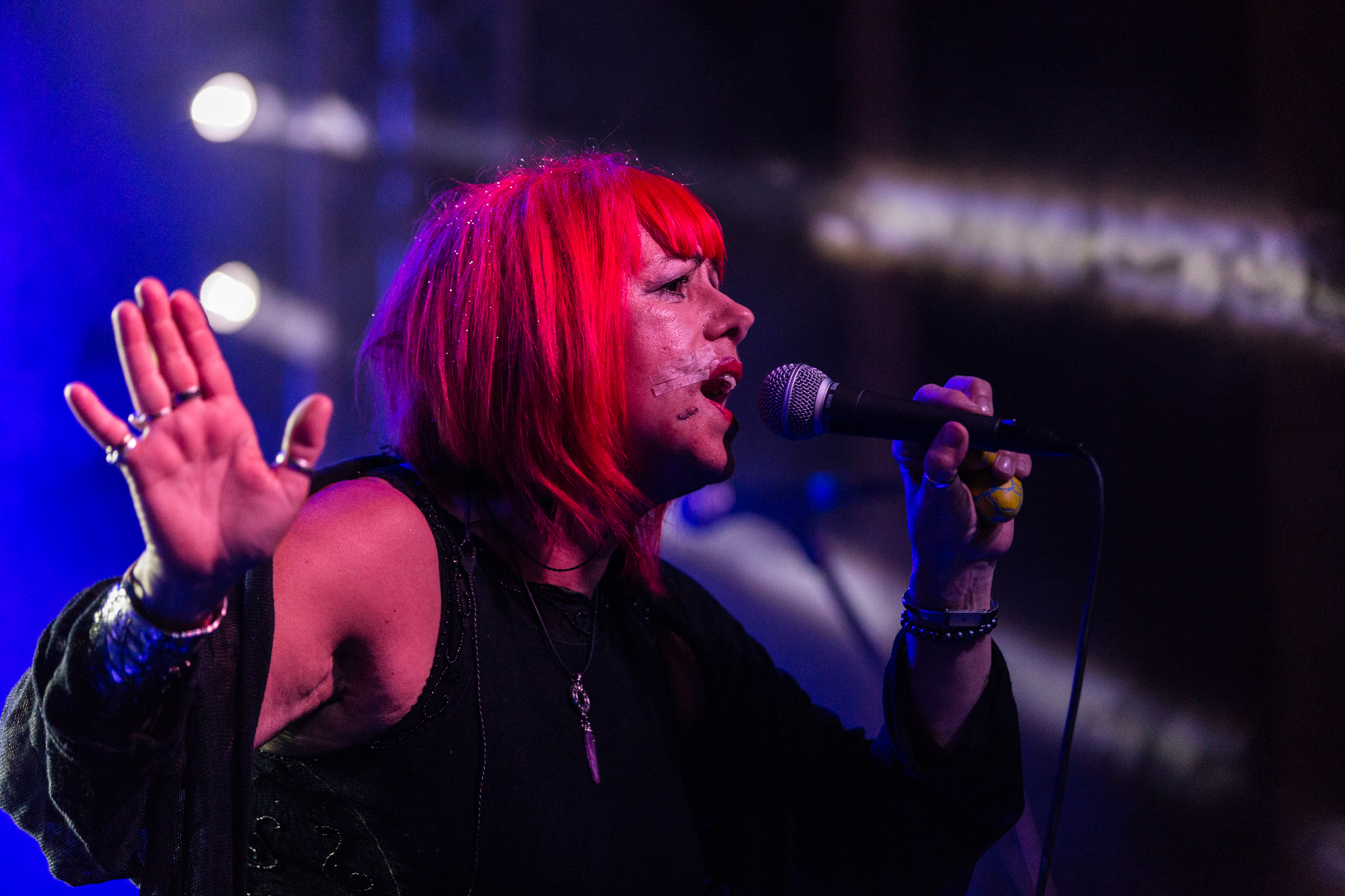 The british gothic rock band Skeletal Family at the Wave-Gotik-Treffen 2017 in Leipzig/Germany (Venue Heathen village).